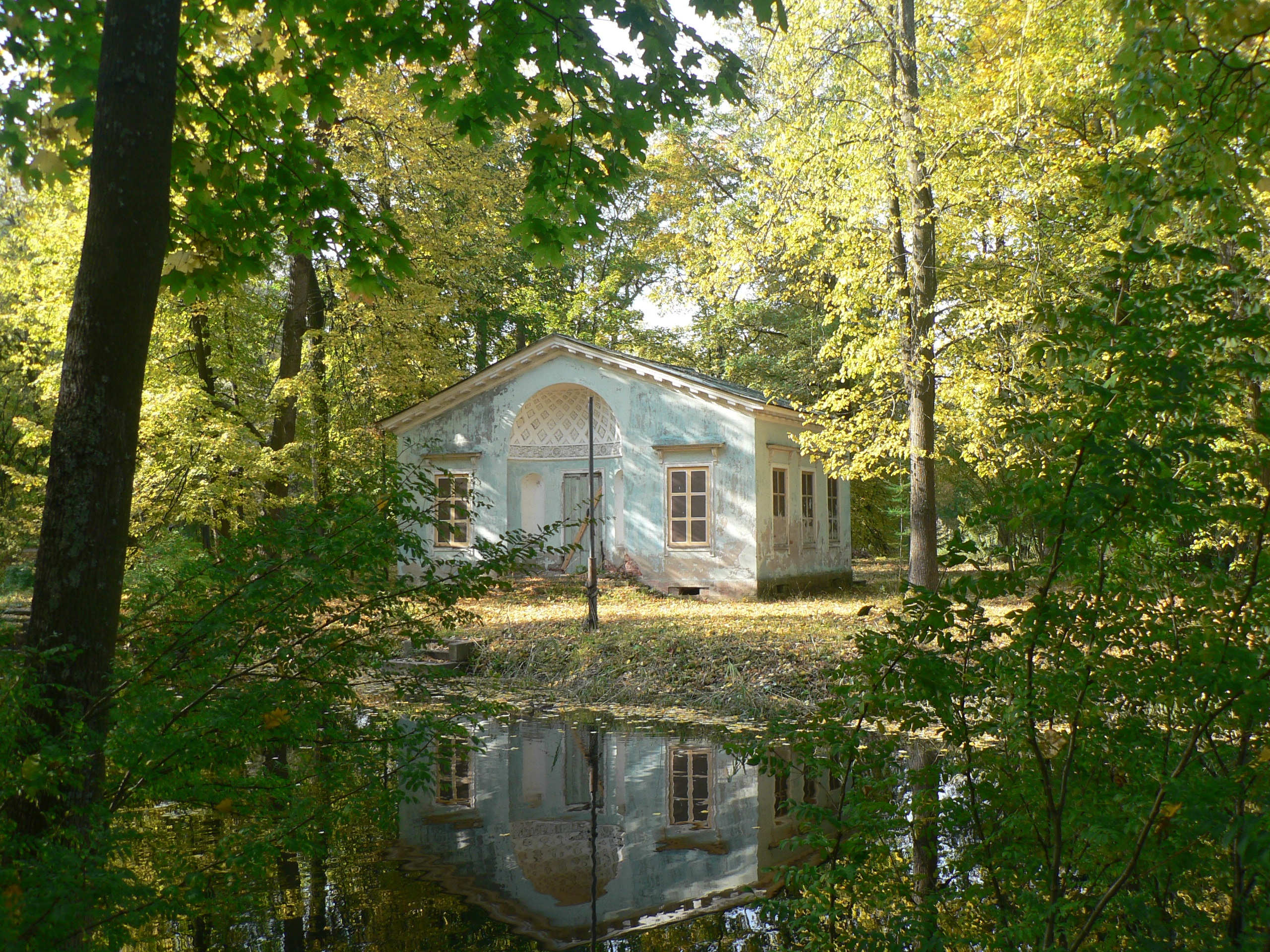 Children's small house in Tsarskoe Selo. 2010.